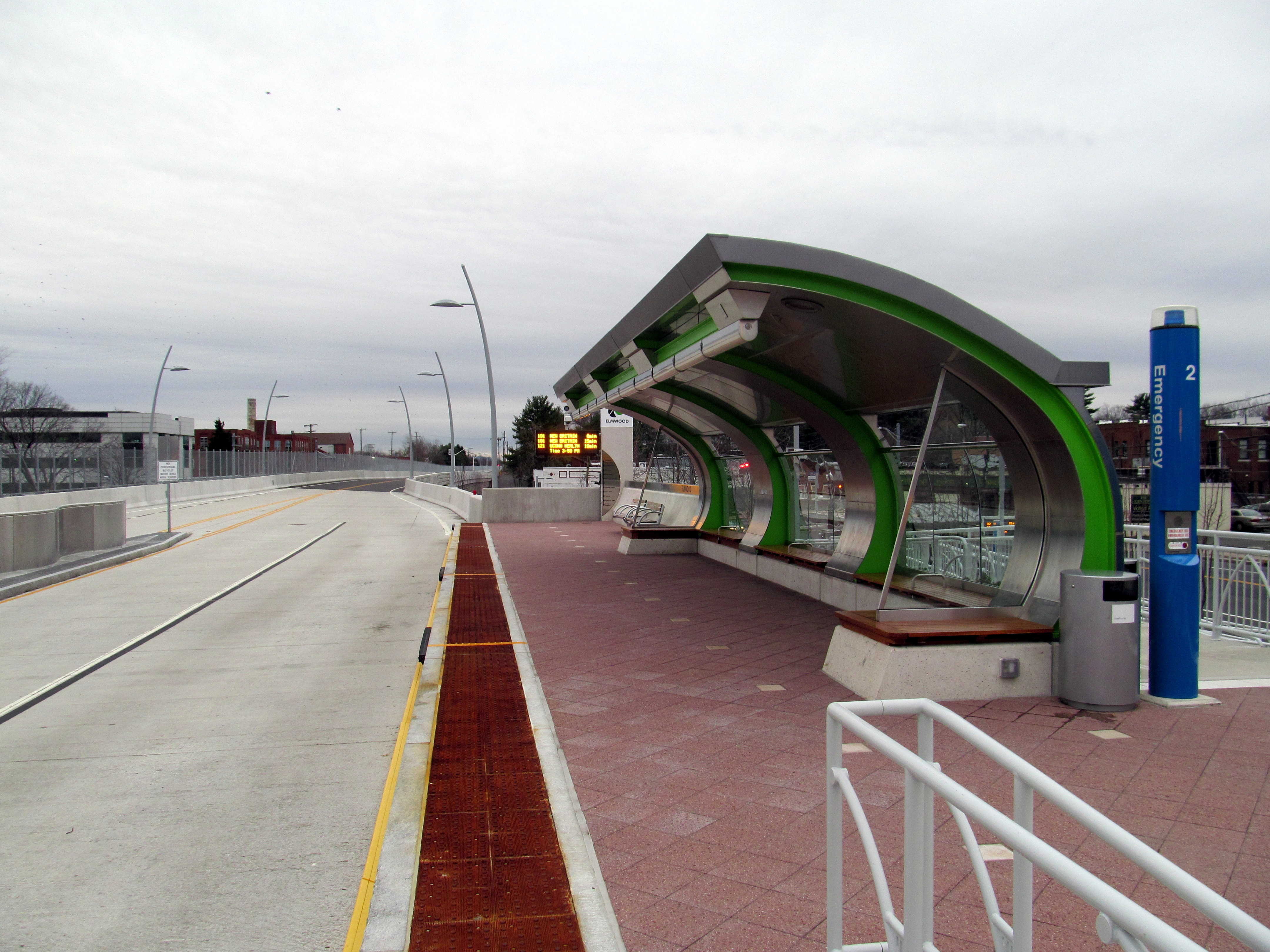 Elmwood CTfastrak station in December 2015